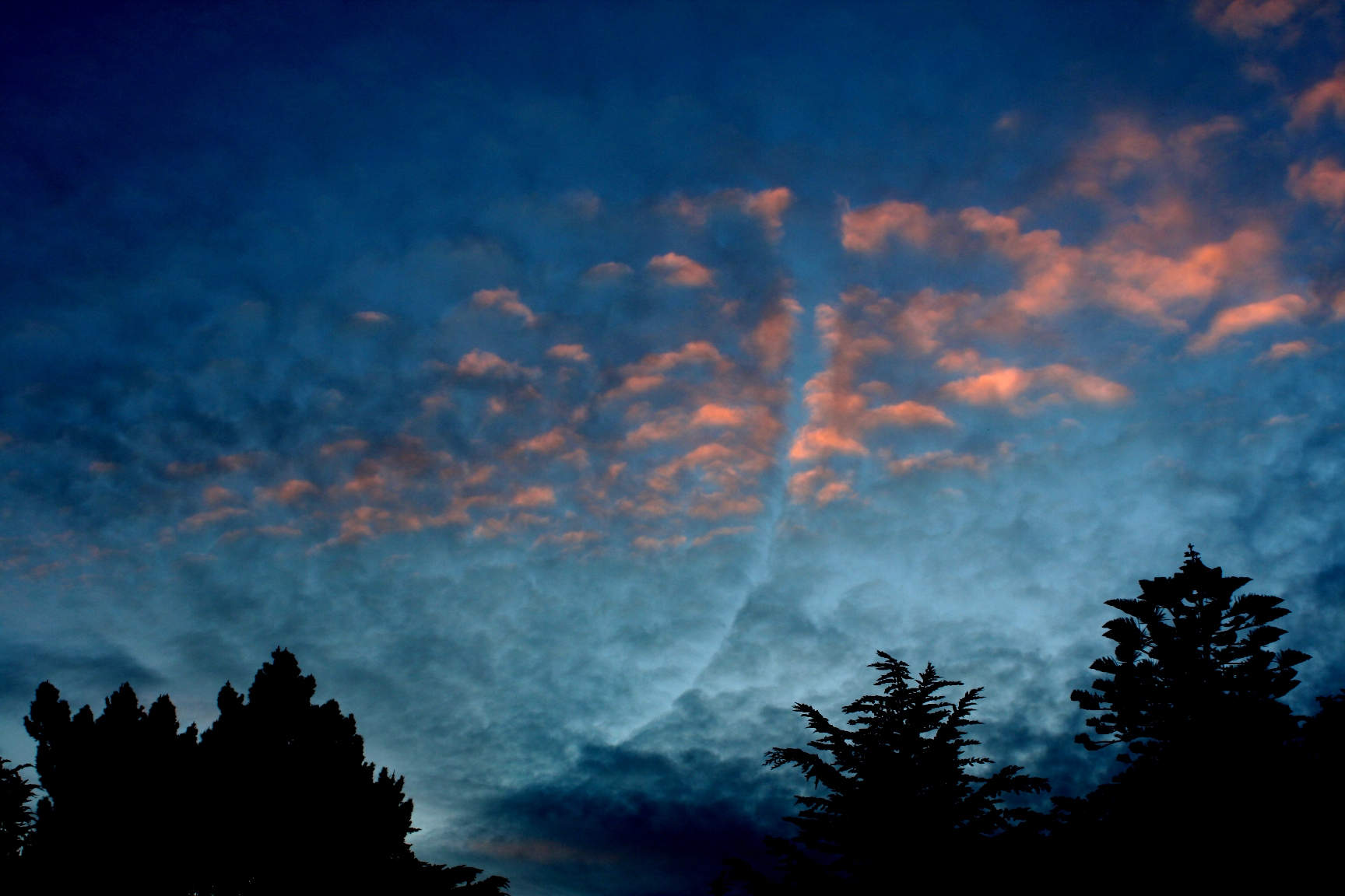 Distrail is the opposite of a contrail. The jet exhaust has caused the thin cloud layer to dissolve.